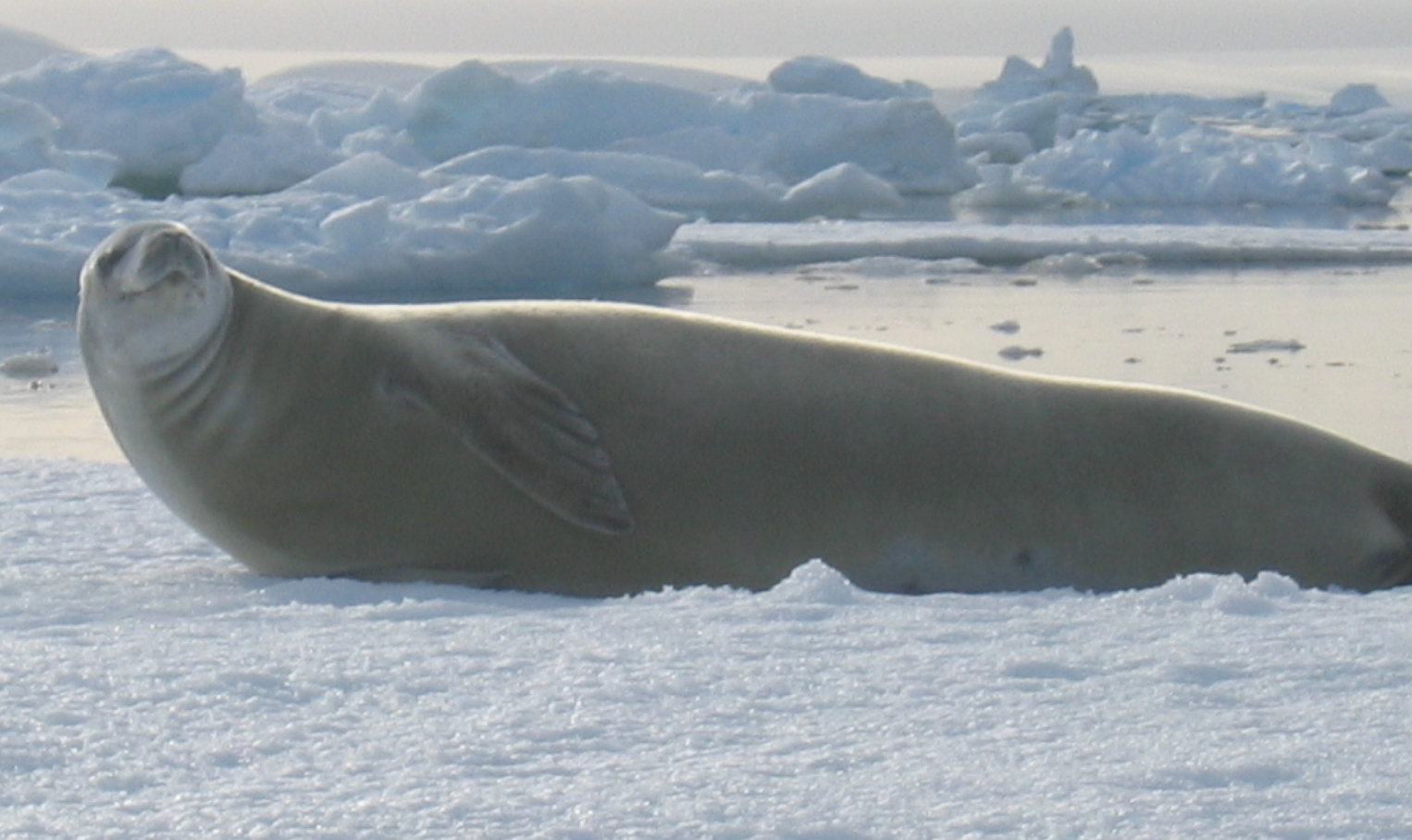 Lobodon_carcinophagus (engl. crabeater seal; dt. Krabbenfresser) at Fish Island/Antarctica